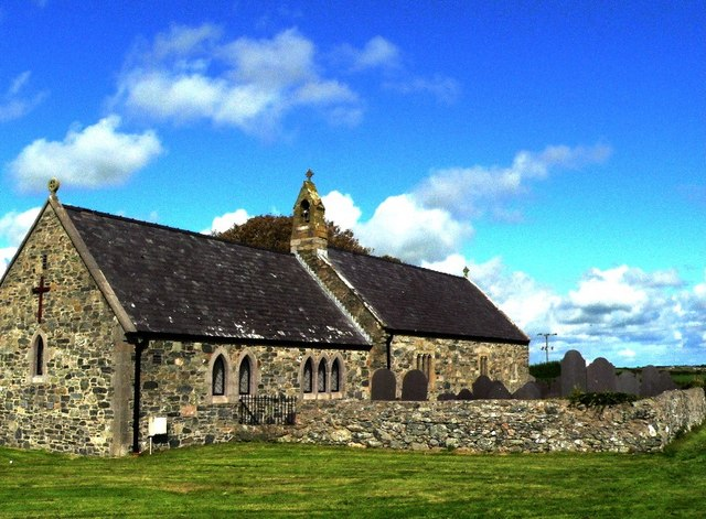 Eglwys St Mihangel's Church